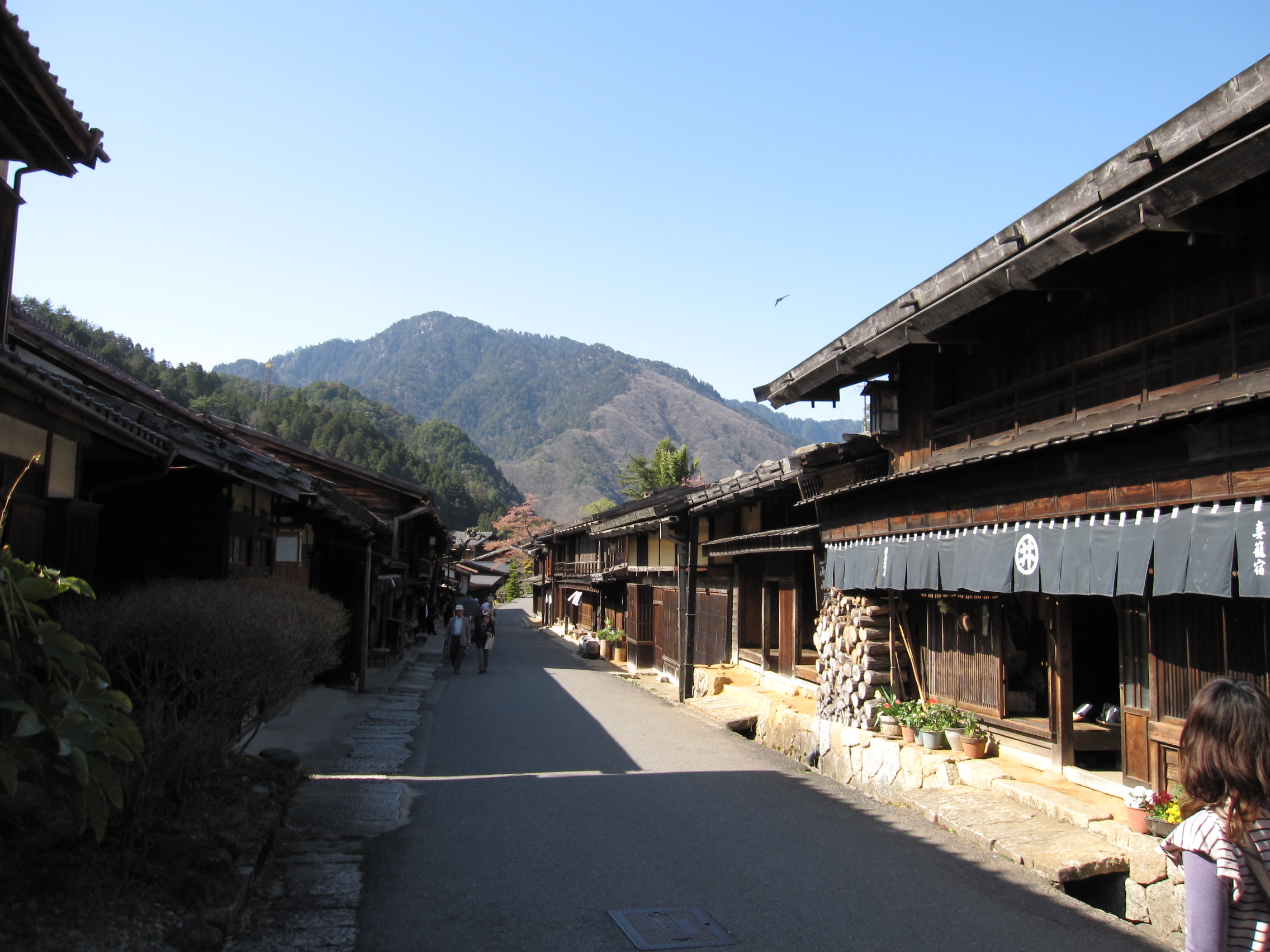 Tsumago-juku (妻籠宿) in Nagano Prefecture, central Japan, in Spring of 2009 with cherry blosoms.